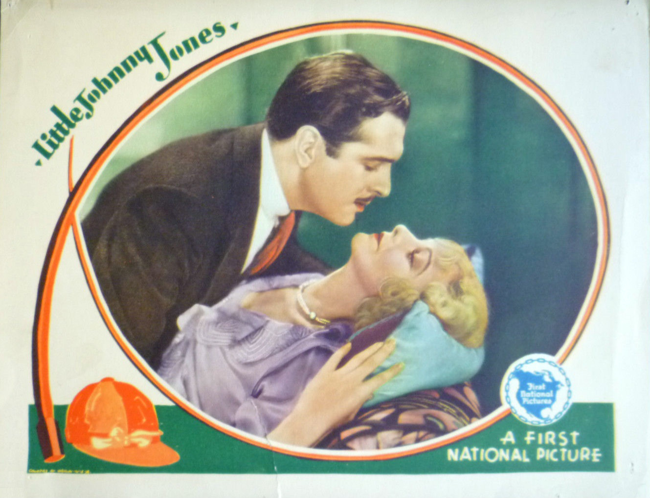 Lobby card for the American musical film Little Johnny Jones (1929).